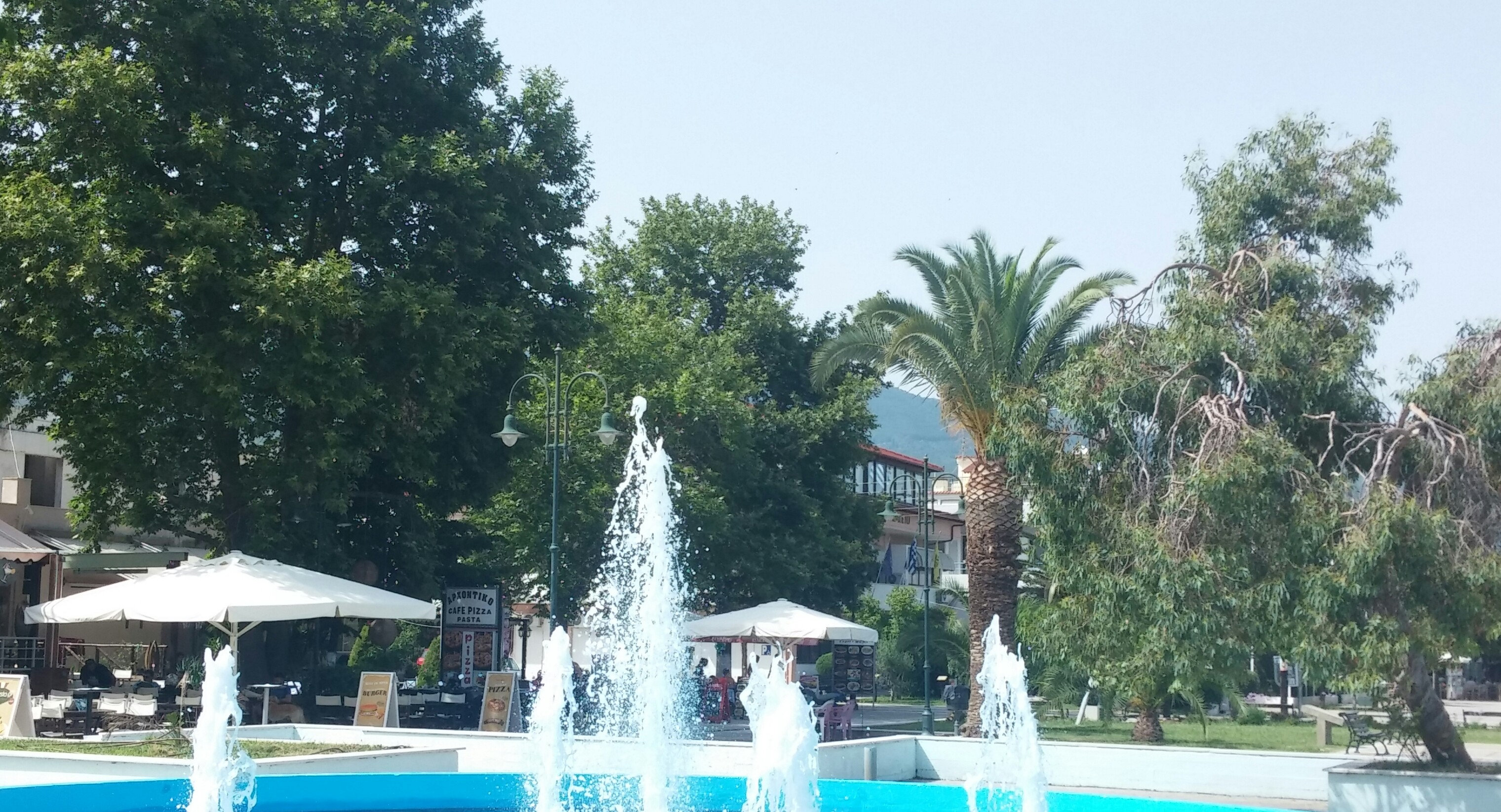 Asprovalta Park